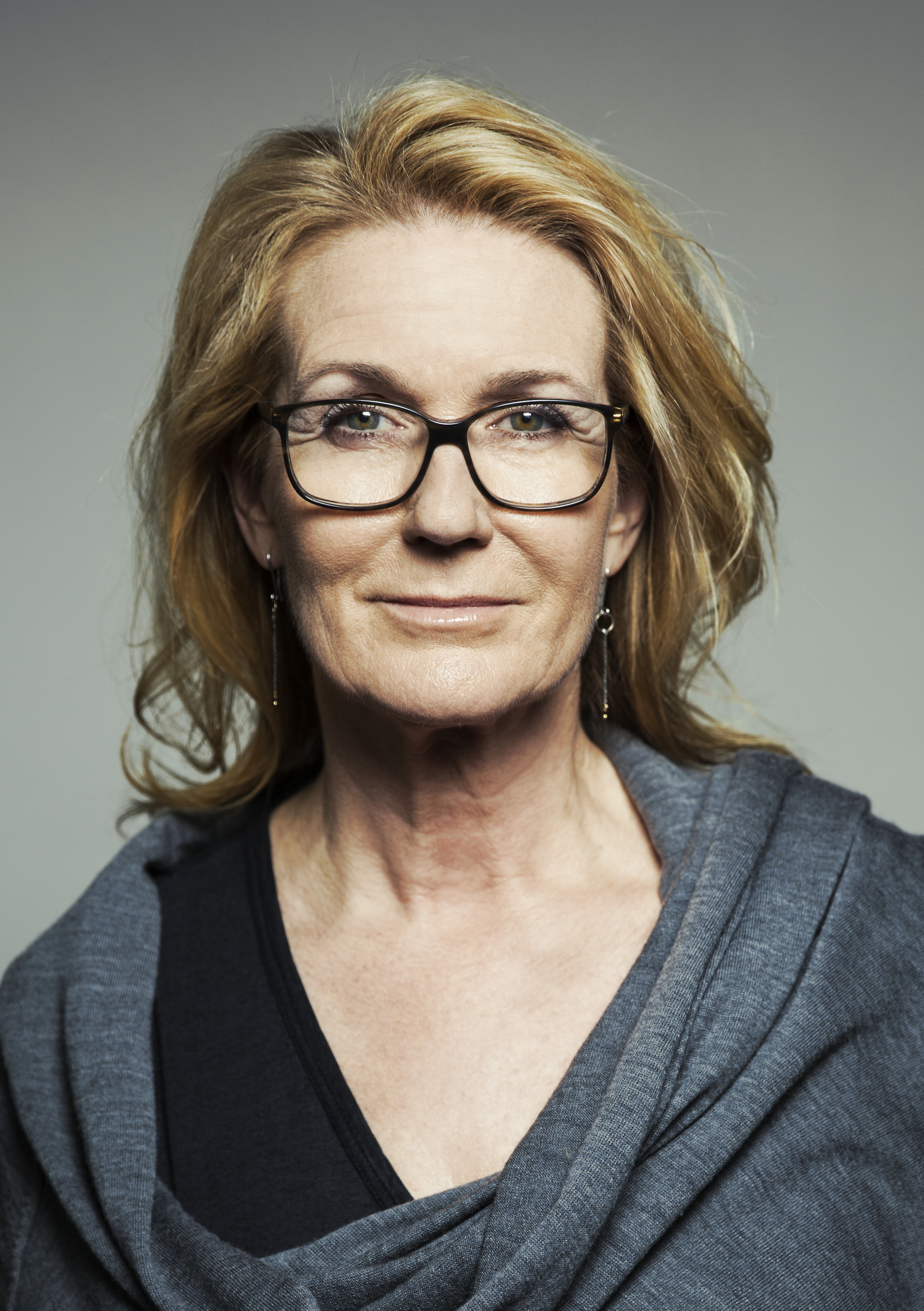 Gabriela Bacher, 2013